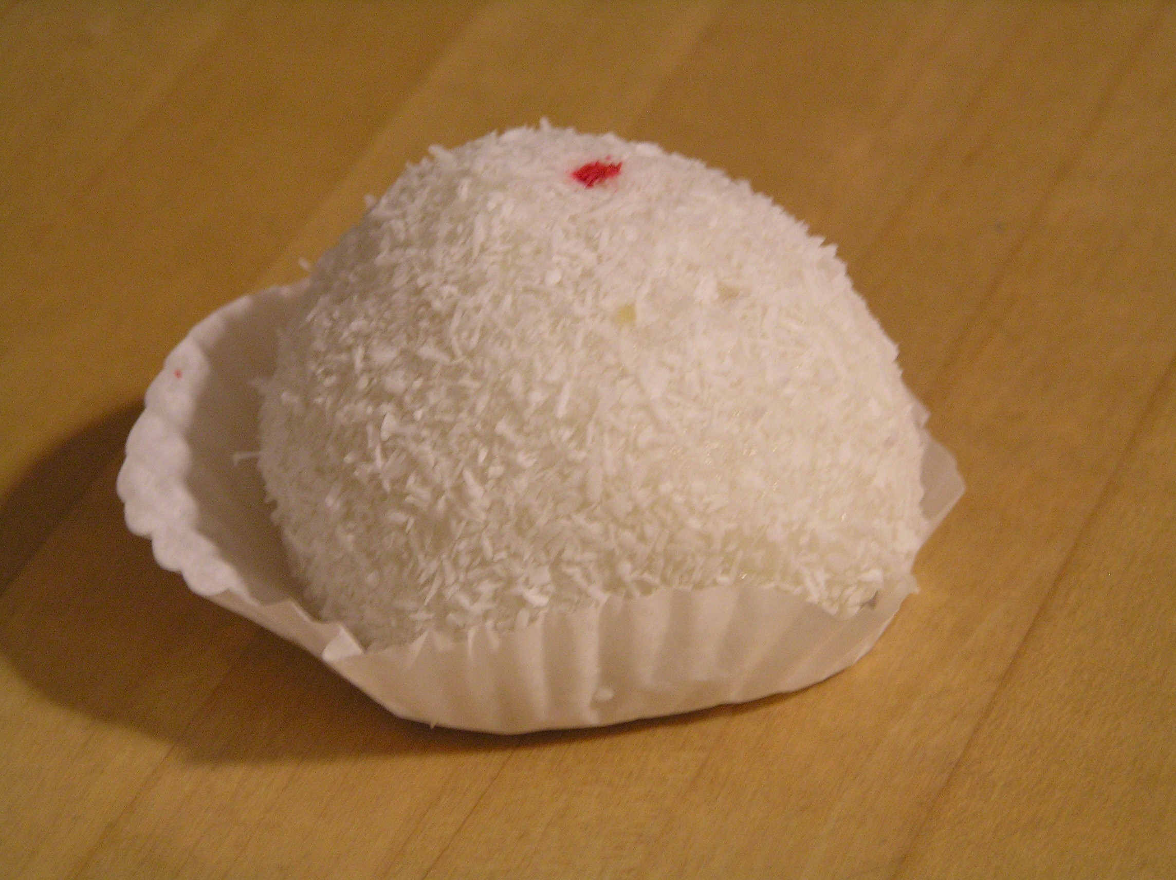 Nuo Mi Zi